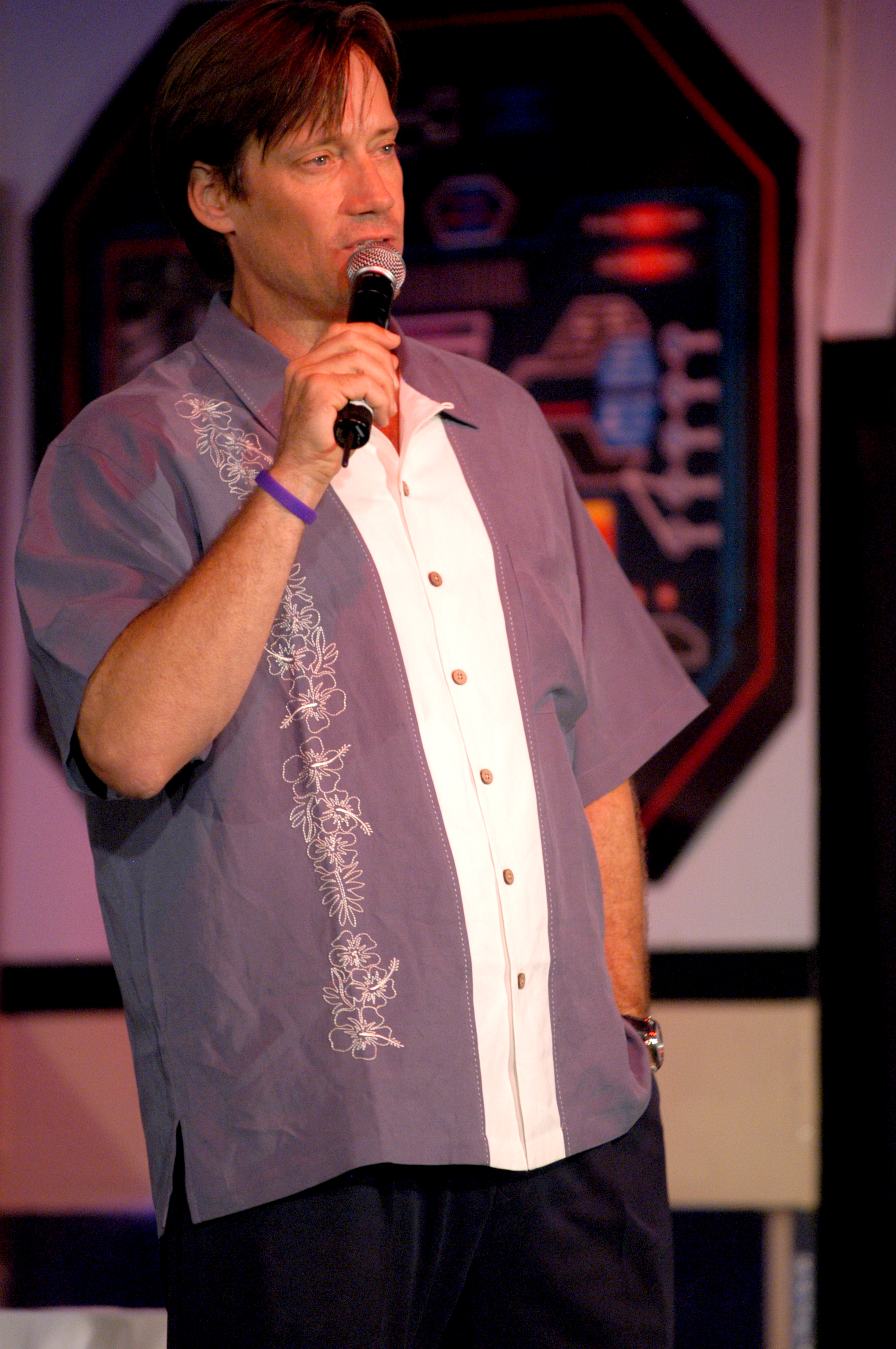 Kevin Sorbo at the Gatecon 2005.